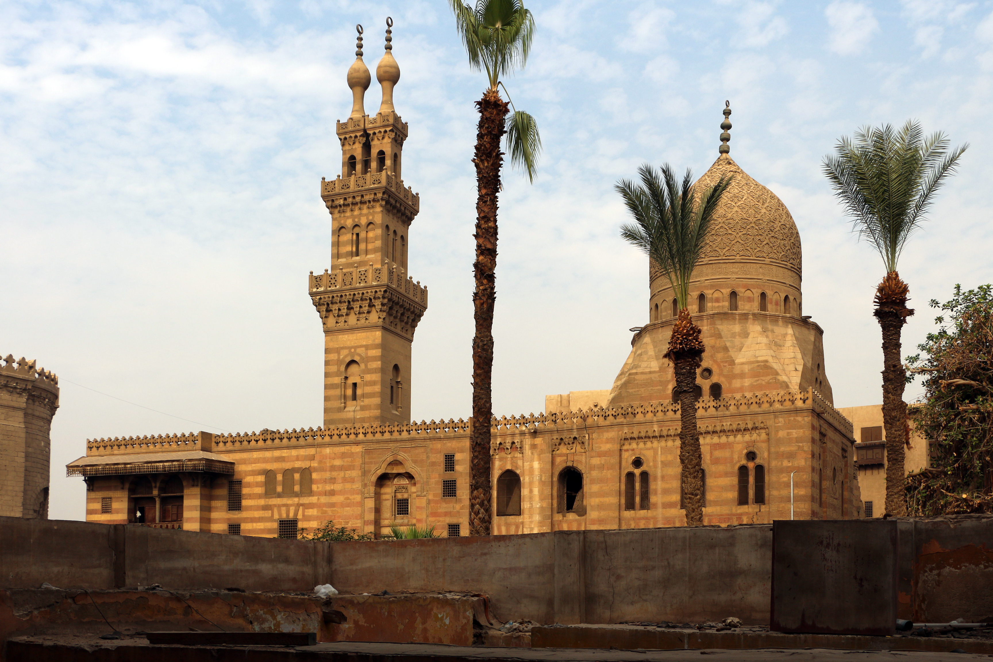 Qanibay Sabil